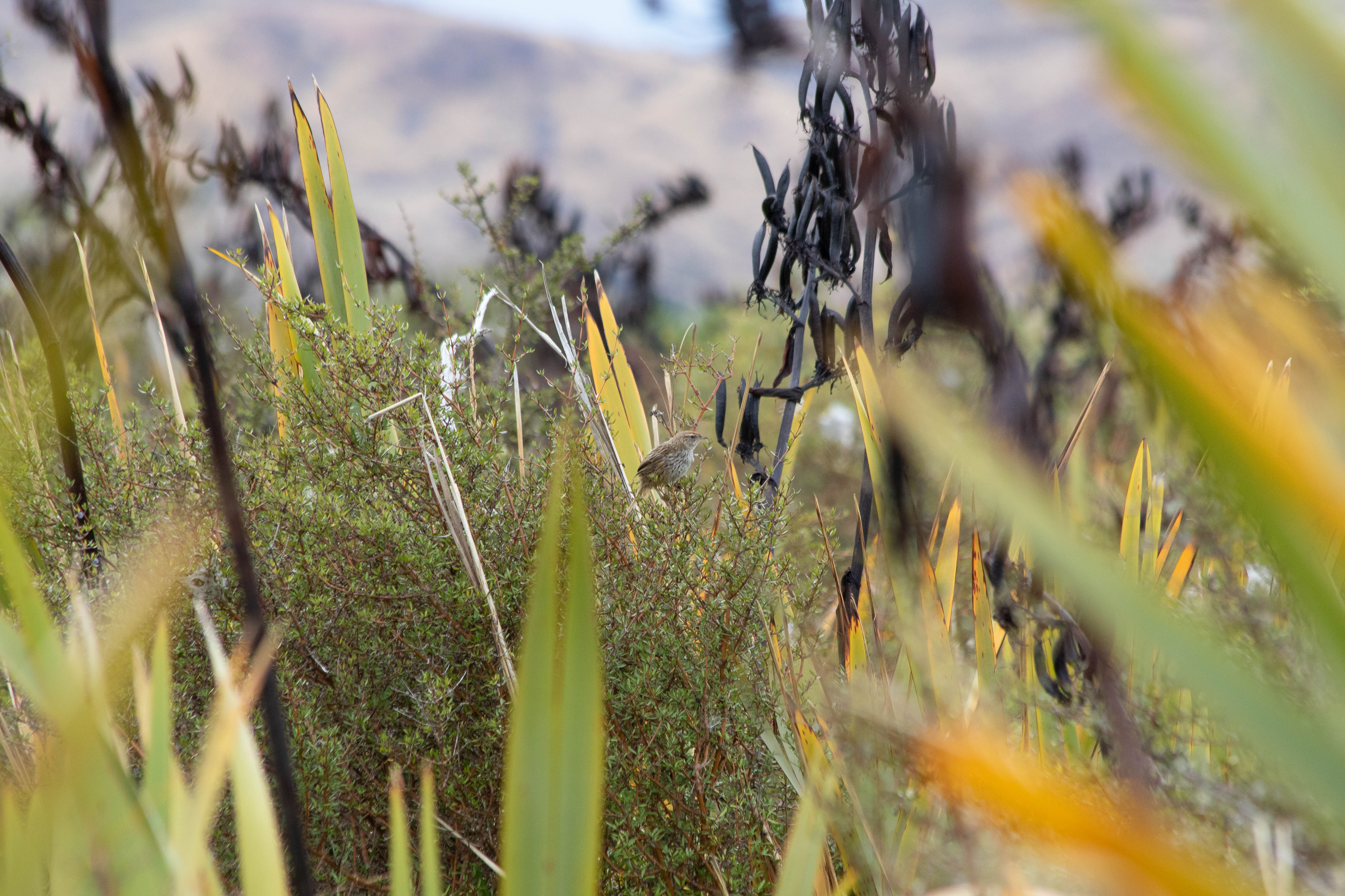 Fernbird (Mātātā) among harakeke (flax) and mingimingi at Sinclair Wetlands in Dunedin, New Zealand.